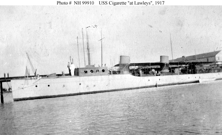 USS Cigarette. At the George Lawley & Son shipyard, Neponsett, Dorchester, Massachusetts, probably while being prepared for Navy service, circa June 1917. She had been constructed by Lawley in 1905.